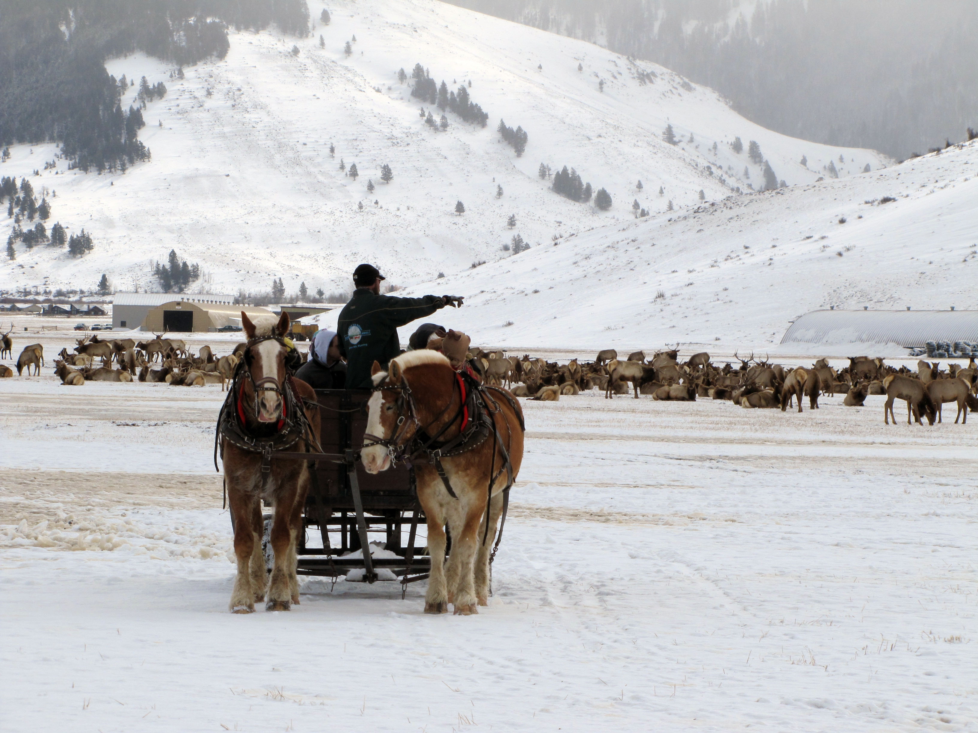 The driver of a horse-drawn sleigh directs passengers' attention to an elk herd at National Elk Refuge in Wyoming. (Lori Iverson/FWS)